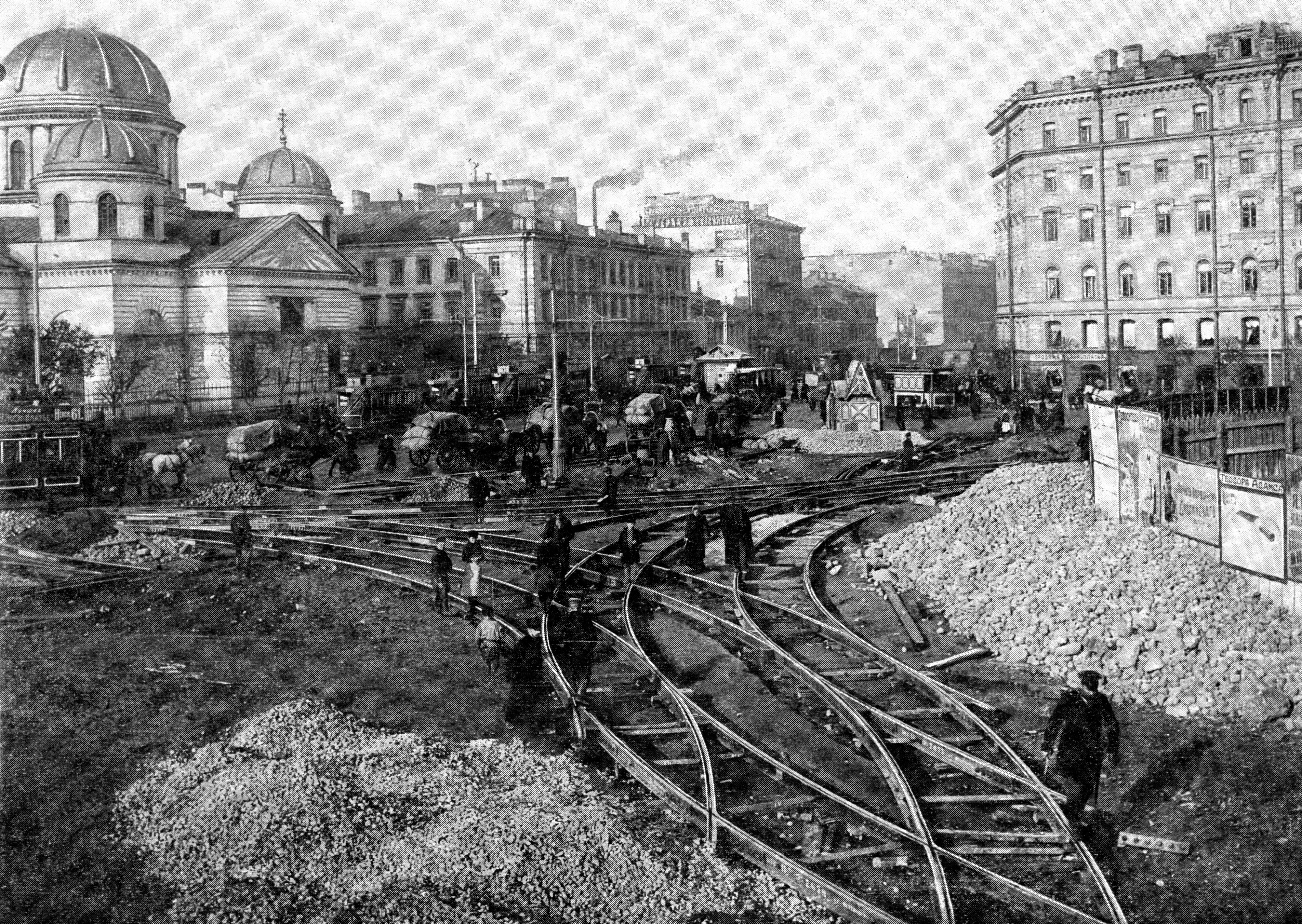 This newspaper photo depicts the construction of the unique tramway junction with multiple curved switches at Znamenskaya sq. in Petersburg. The city tram started its operations in September, 1907.